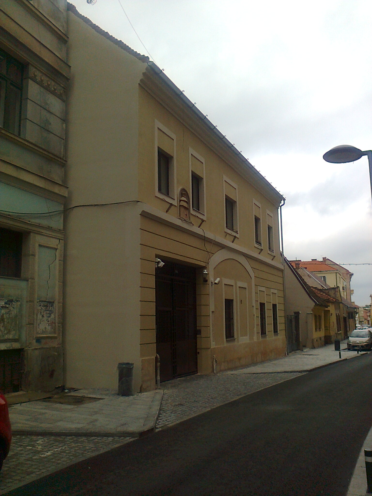 Building of the first bank in Kolozsvár (today: Cluj-Napoca, Romania)